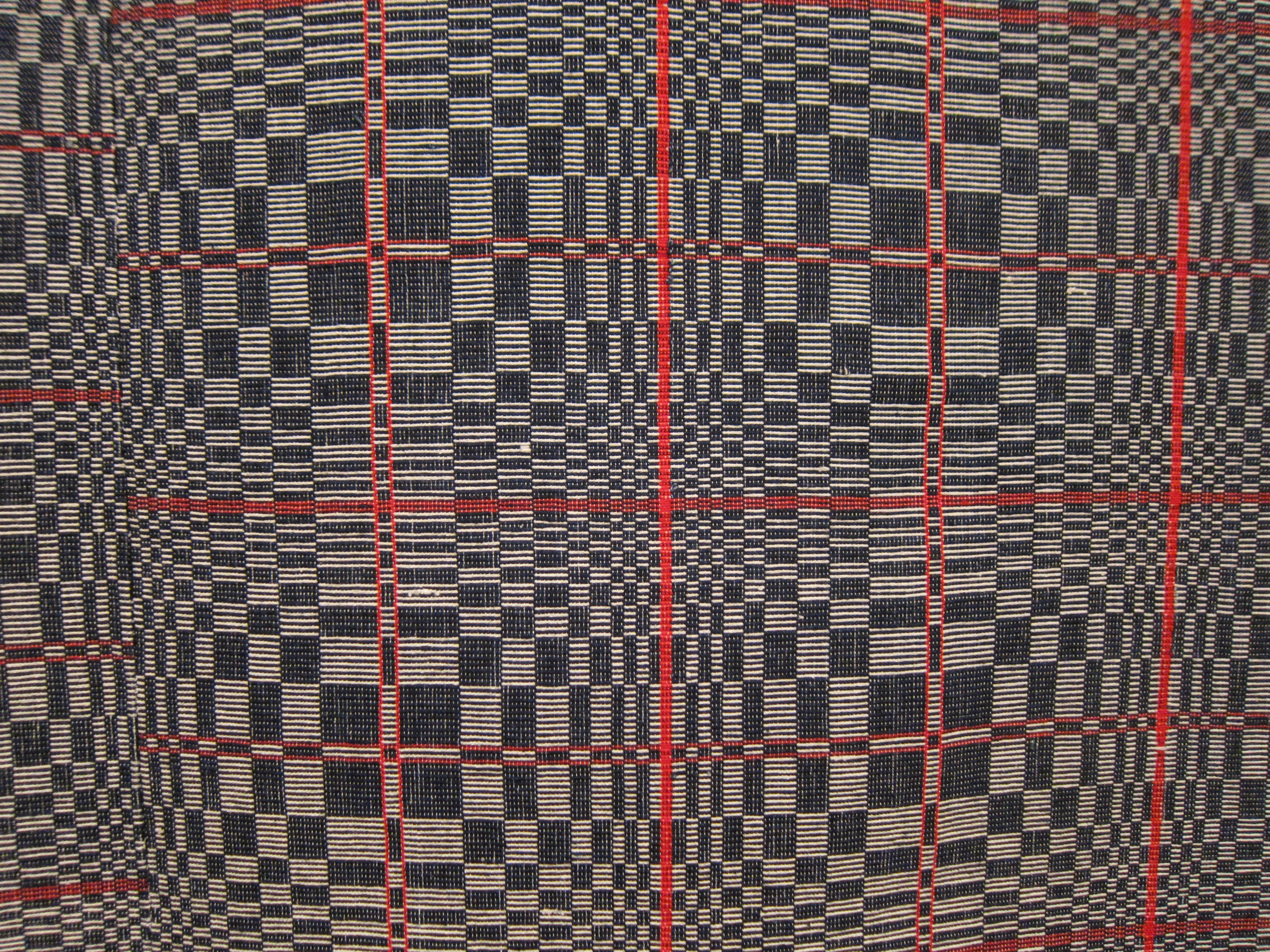 Binakol (ceremonial blanket) from the Philippines, Northern Luzon, Abra, Tinguian, 20th century, cotton, repp weave, embroidery, Honolulu Museum of Art